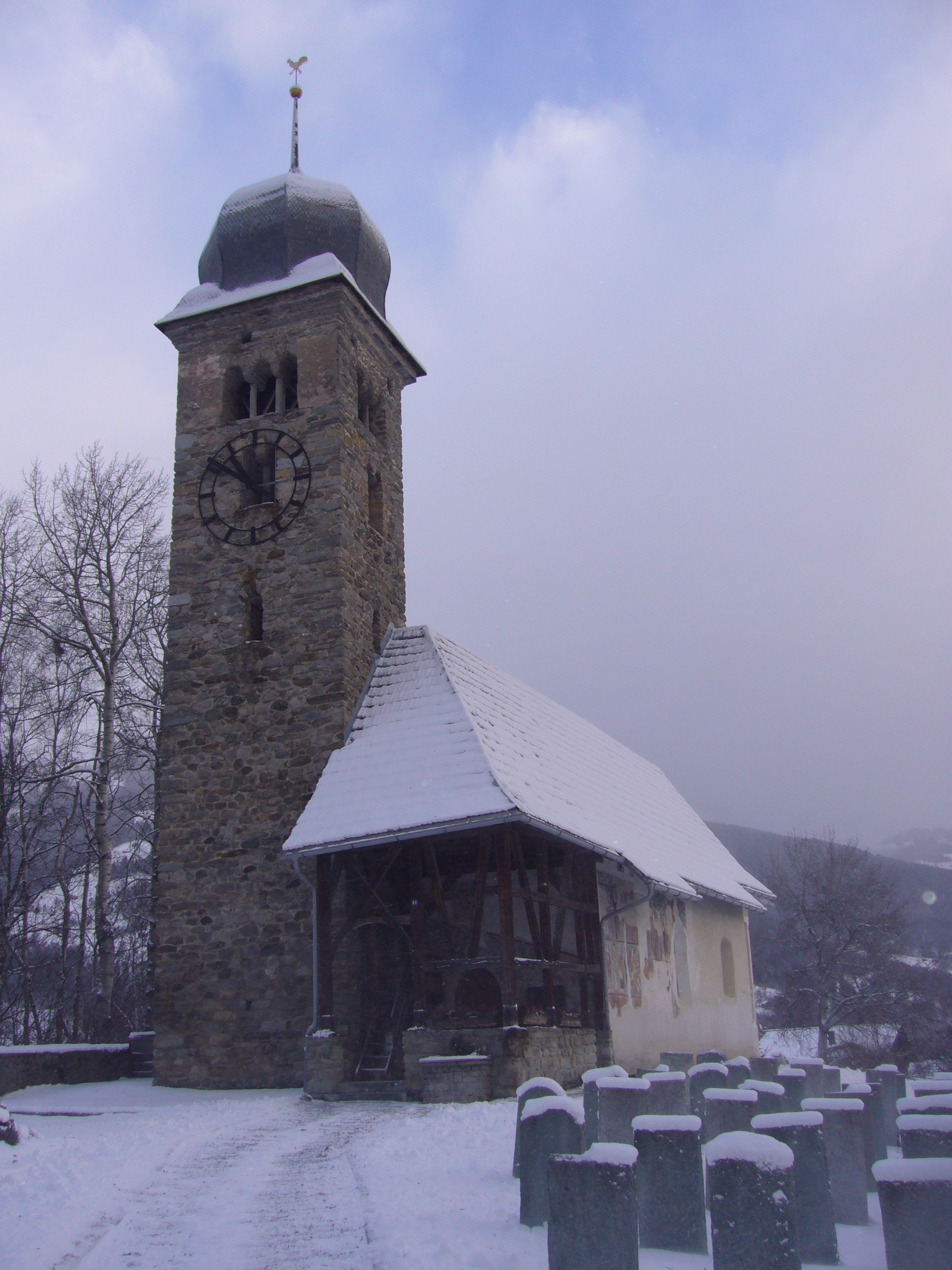 Church in Waltensburg. Village in the canton of Graubünden, Switzerland. Picture taken by Peter Berger on January 2, 2007.